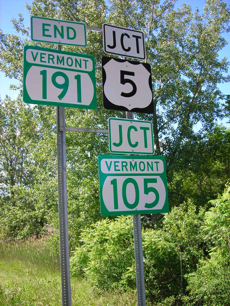 The terminus of Vermont Route 191 at VT 105 and US 5